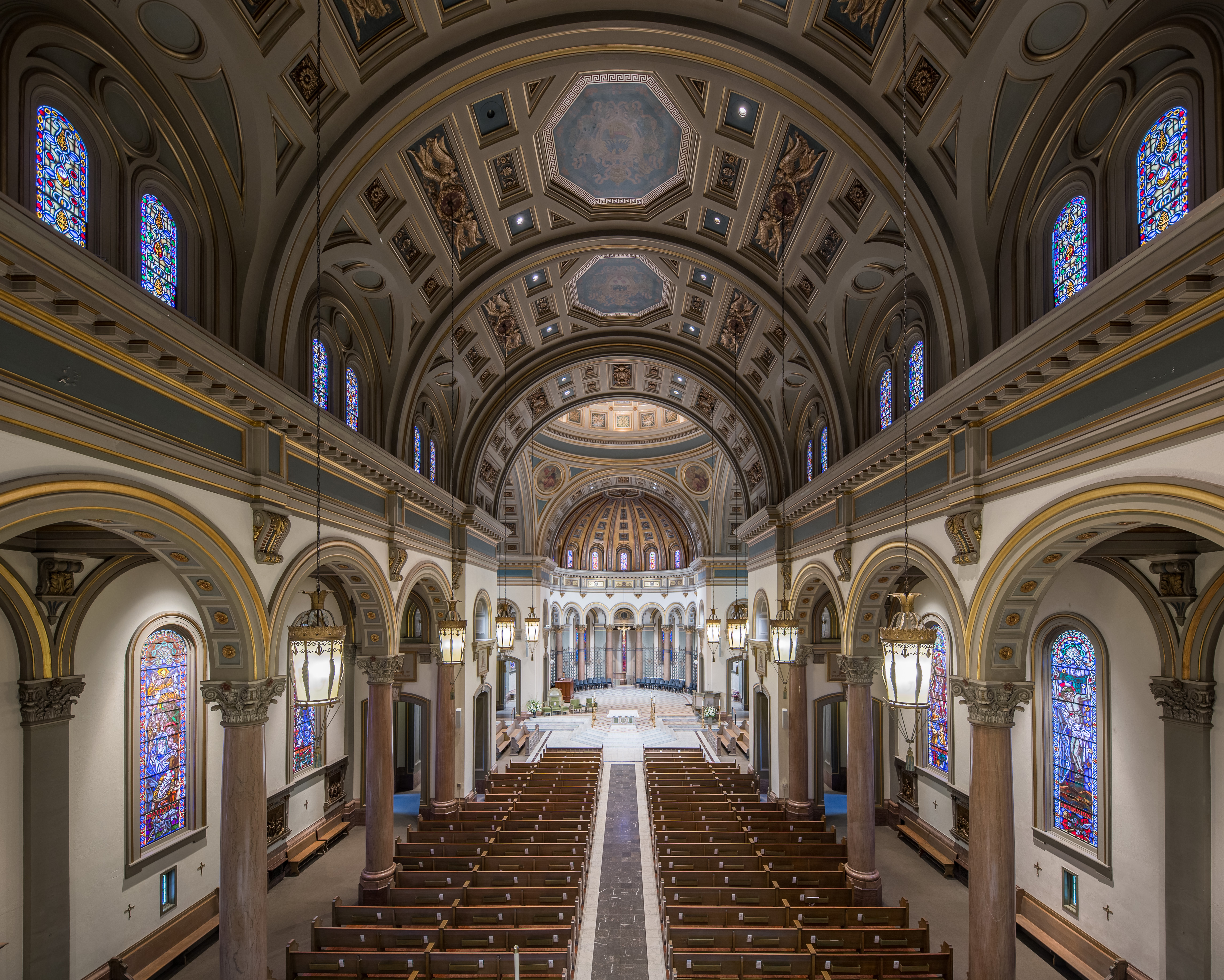 The main nave of the Cathedral of the Sacred Heart in Richmond, Virginia